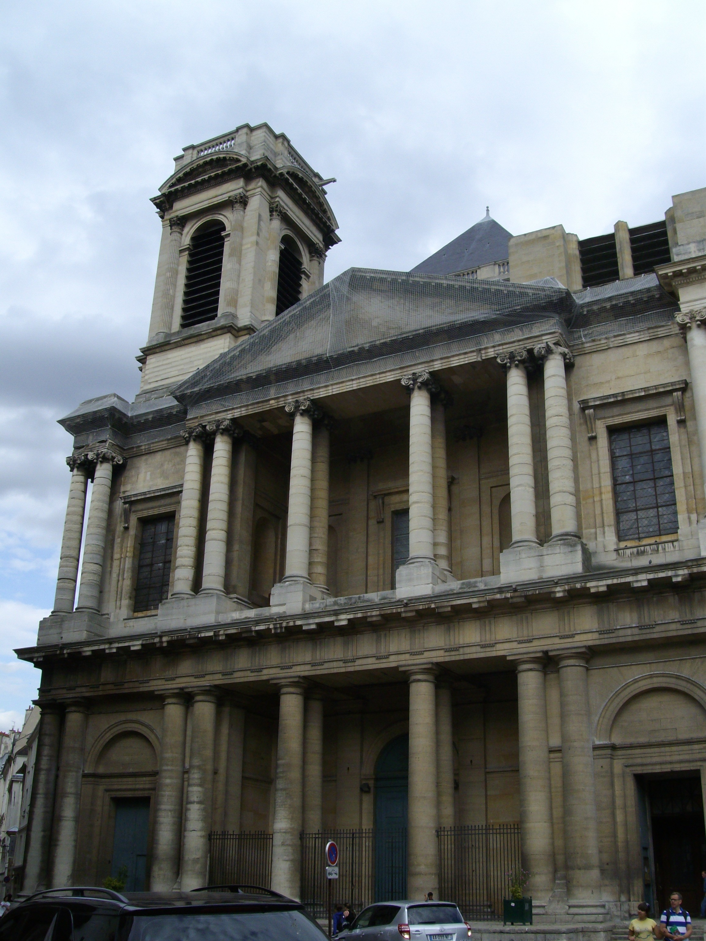 The Église Saint-Eustache of Paris (France)